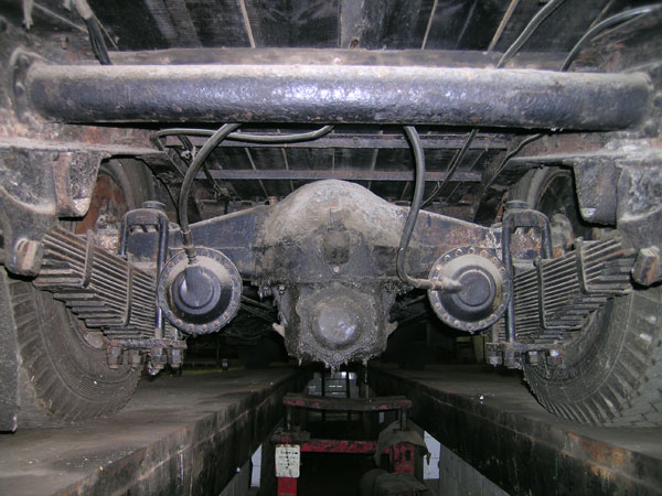 The rear bridge of MTB-82 trolleybus